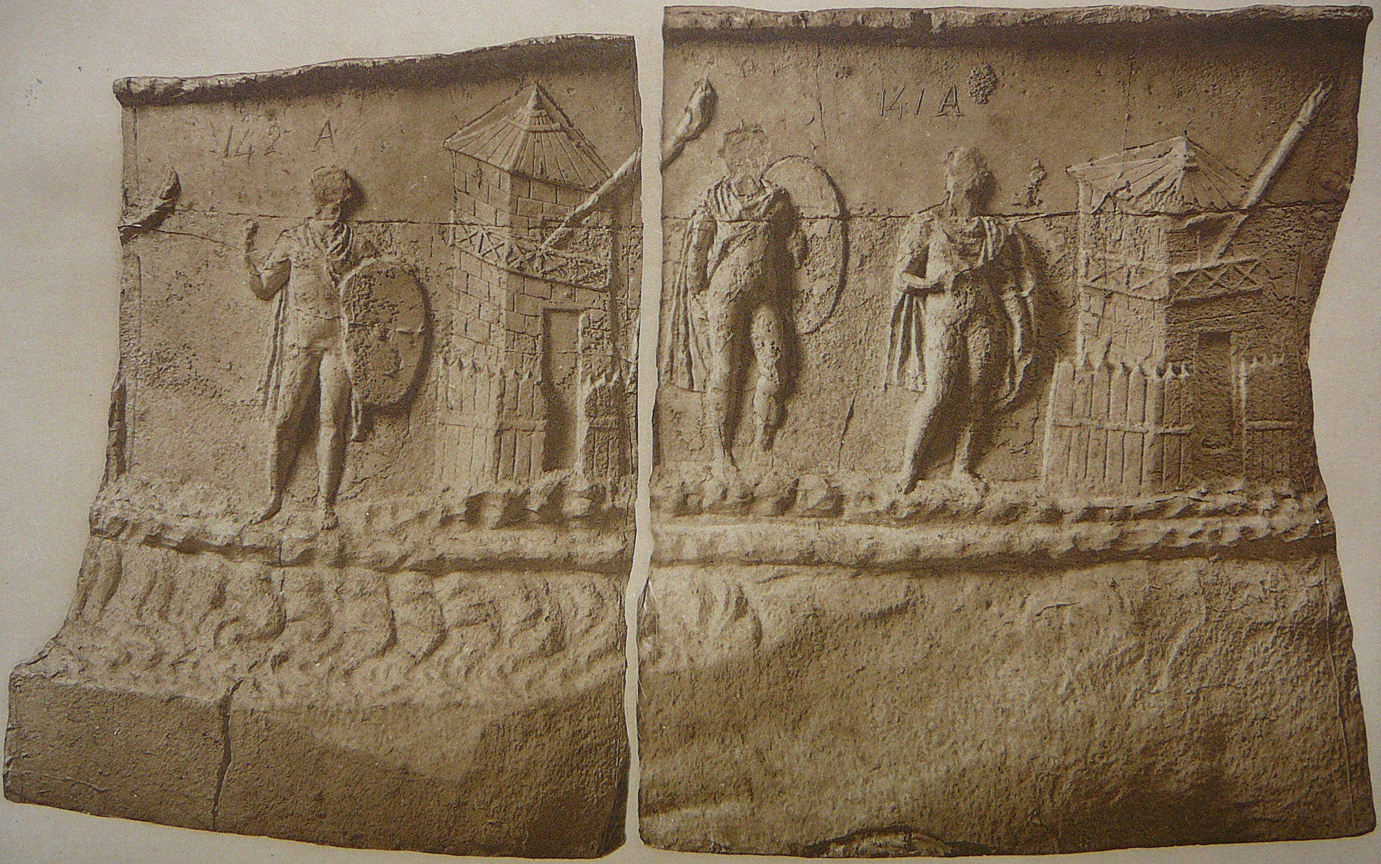 The watch on the Danube (scene I)